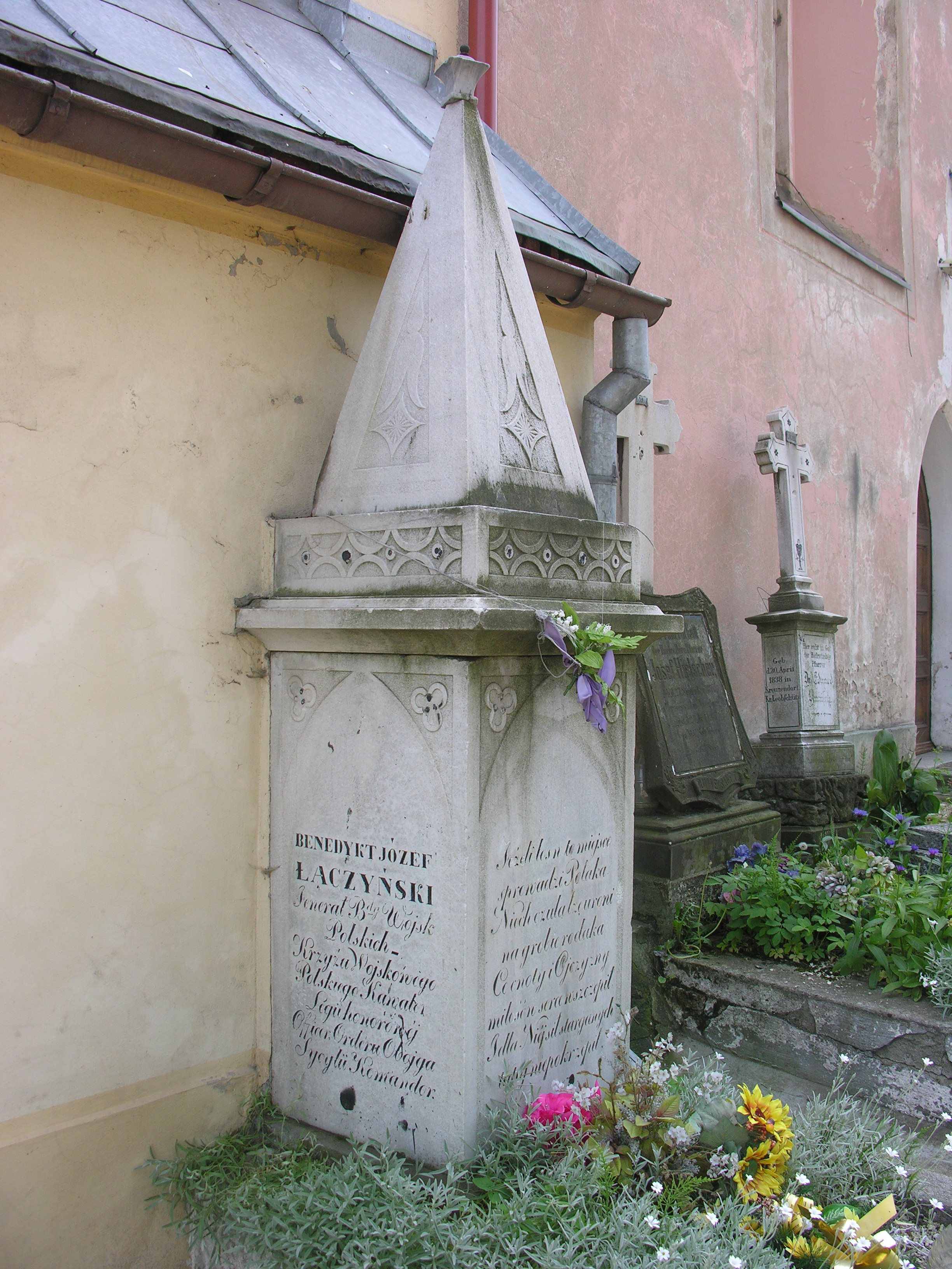 Nagrobek generała Benedykta Łączyńskiego - tomb in Wałbrzych